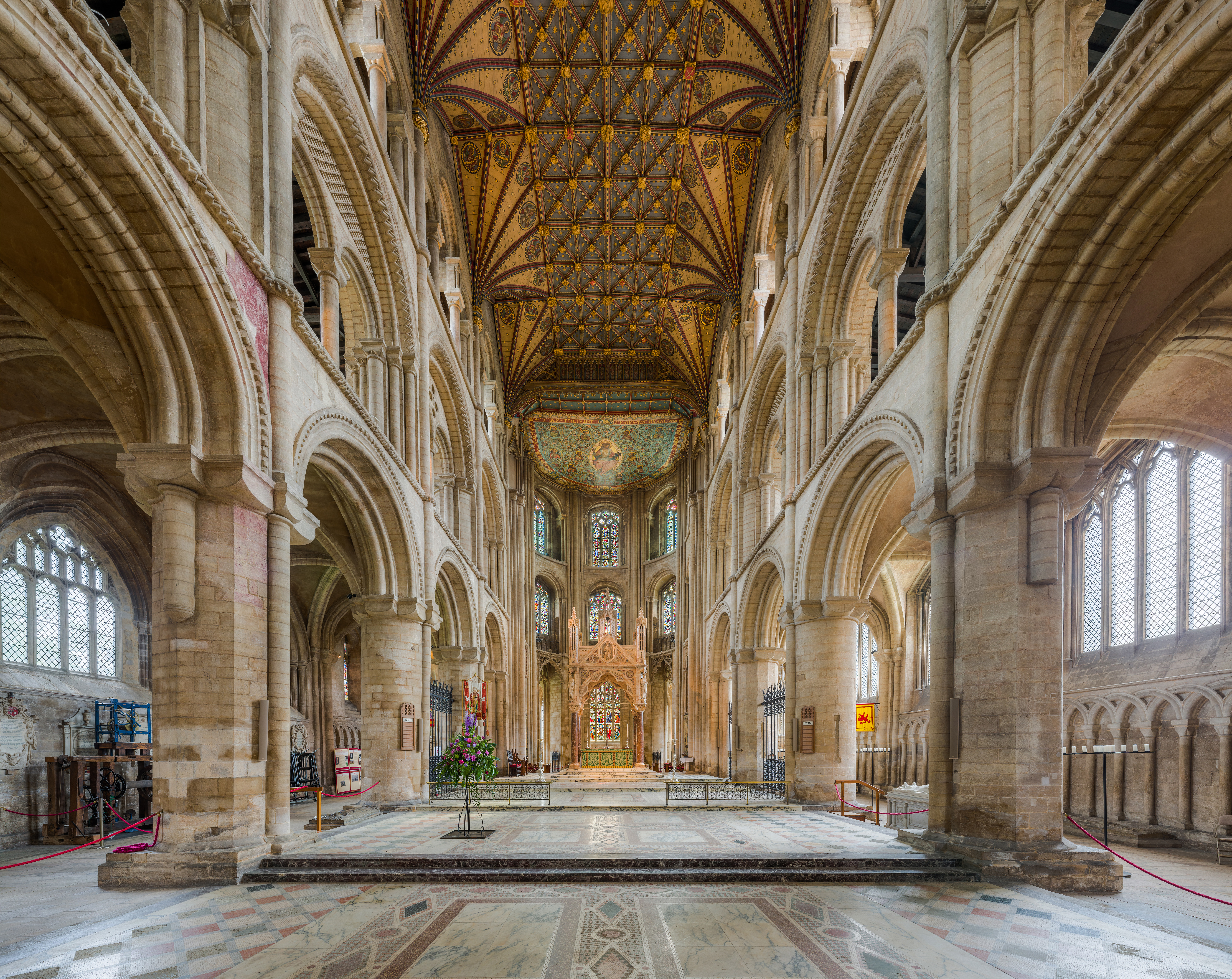 The sanctuary of Peterborough Cathedral looking east in Cambridgeshire, England.